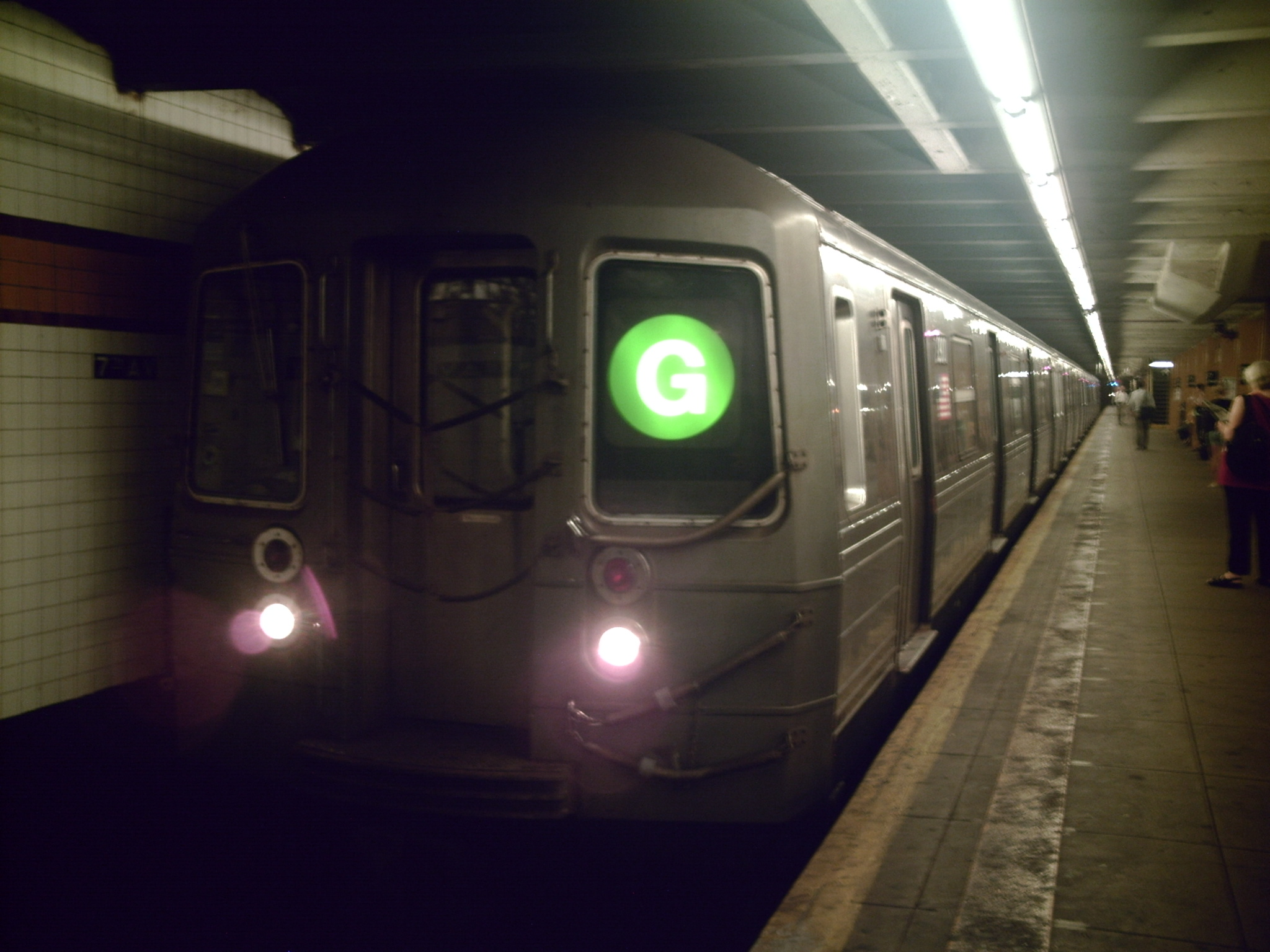 Queens-bound G train of R68s at 7th Avenue